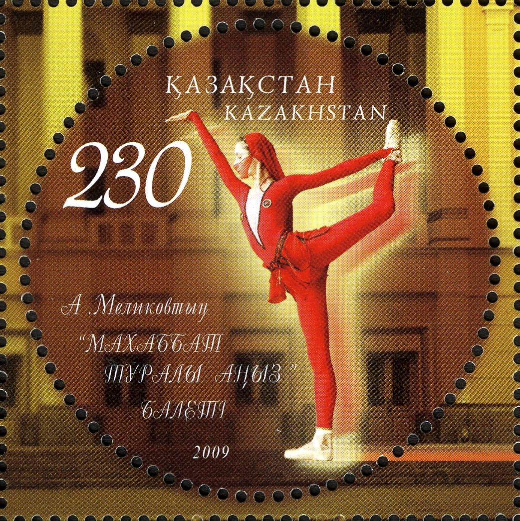 Stamps of Kazakhstan, 2009